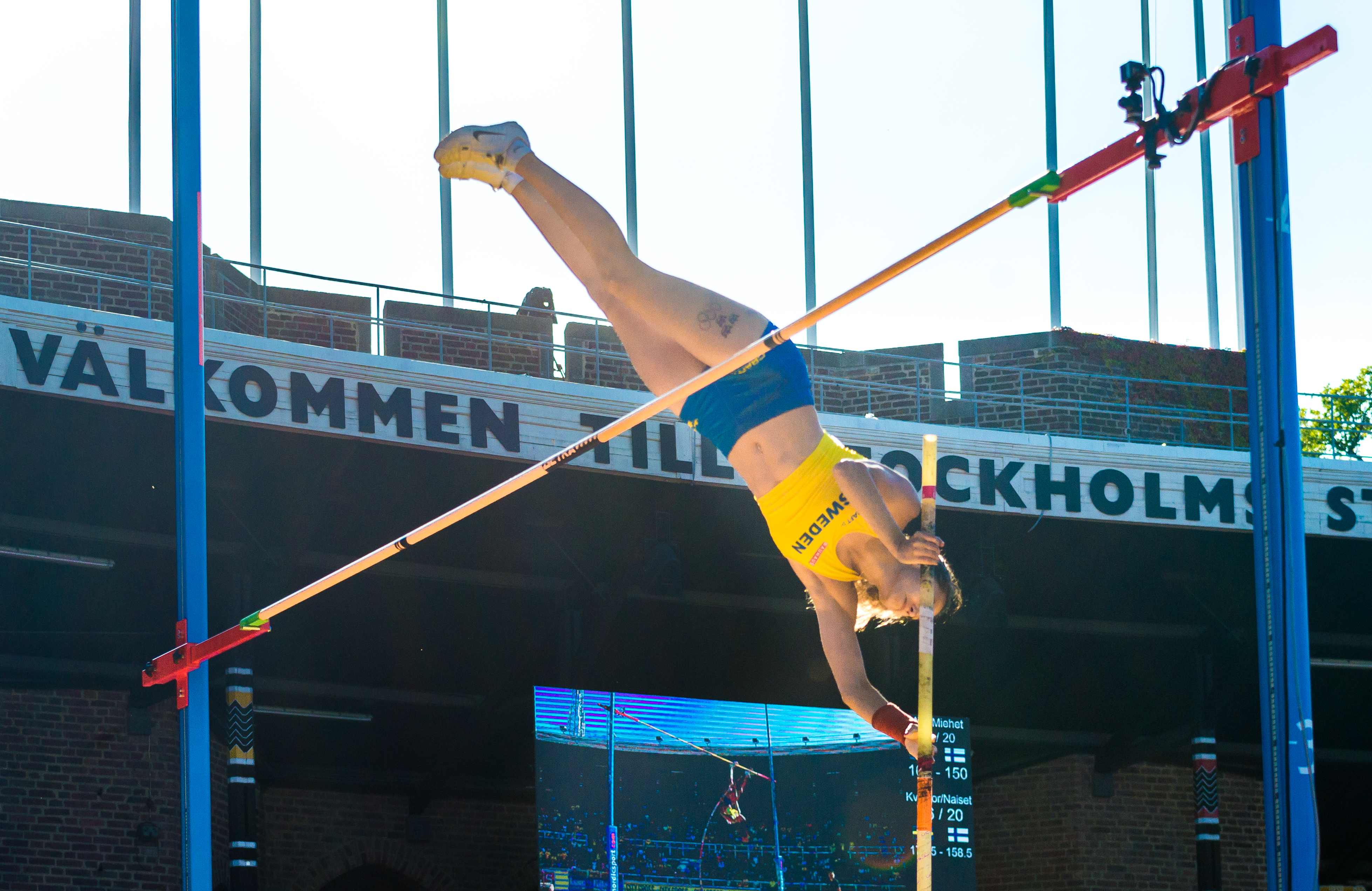 Angelica Bengtsson during the Finland-Sweden athletics international 2019 at the Stockholm Stadium in August 2019.